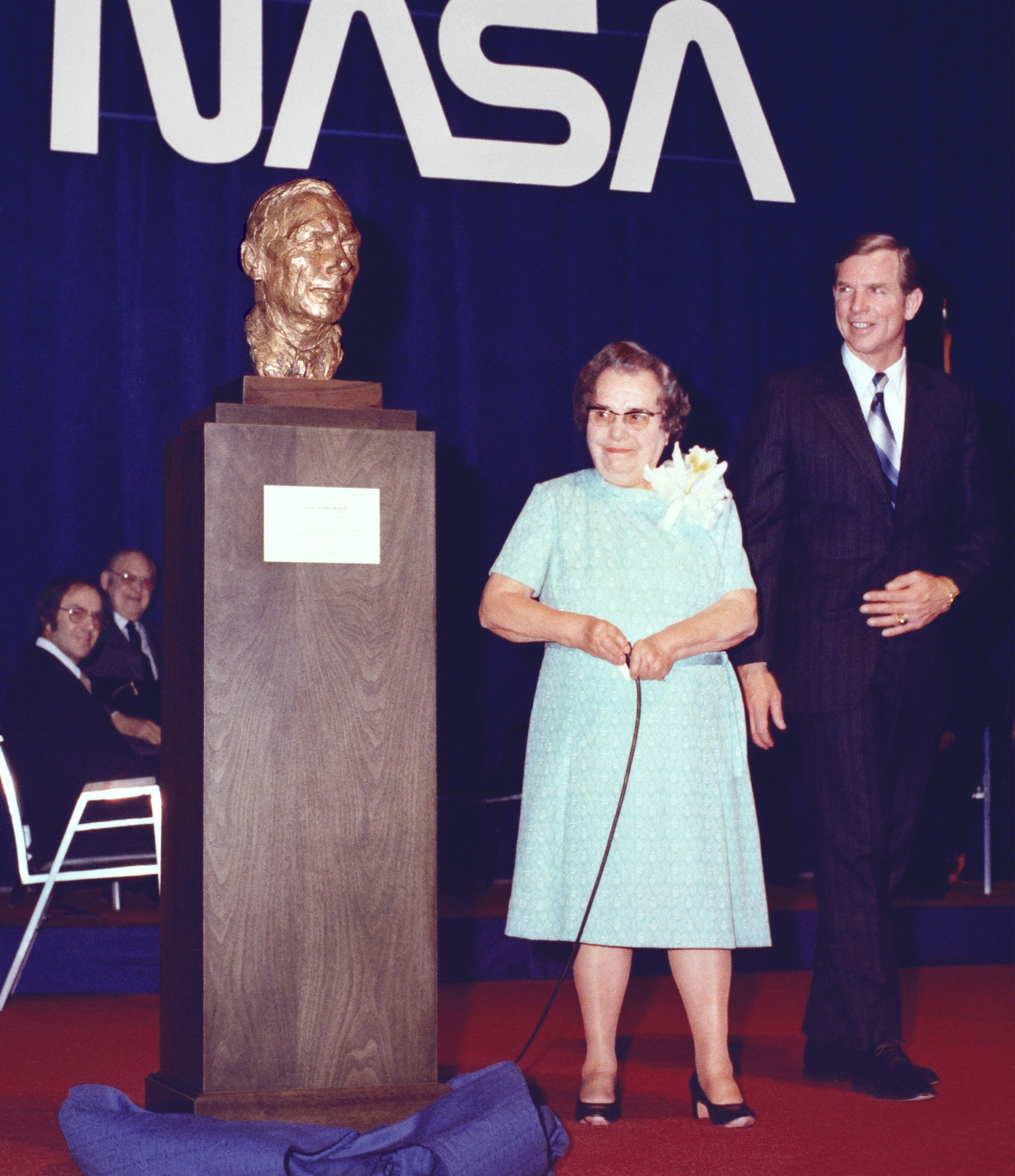 On March 26, 1976, the NASA Flight Research Center opened its doors to hundreds of guests for the dedication of the center in honor of Hugh Latimer Dryden. The dedication was very much a local event; following Center Director David Scott’s opening remarks, the Antelope Valley High School’s symphonic band played the national anthem. Invocation was given followed by recognition of the invited guests. Dr. Hugh Dryden, a man of total humility, received praise from all those present. Dryden, who died in 1965, had been a pioneering aeronautical scientist who became director of the National Advisory Committee for Aeronautics (NACA) in 1949 and then deputy administrator of the NACA’s successor, NASA, in 1958. Very much interested in flight research, he had been responsible for establishing a permanent facility at the location later named in his honor. As Center Director David Scott looks on, Mrs. Hugh L. Dryden (Mary Libbie Travers) unveils the memorial to her husband at the dedication ceremony. On March 26, 1976, the NASA Flight Research Center opened its doors to hundreds of guests for the dedication of the center in honor of Hugh Latimer Dryden.